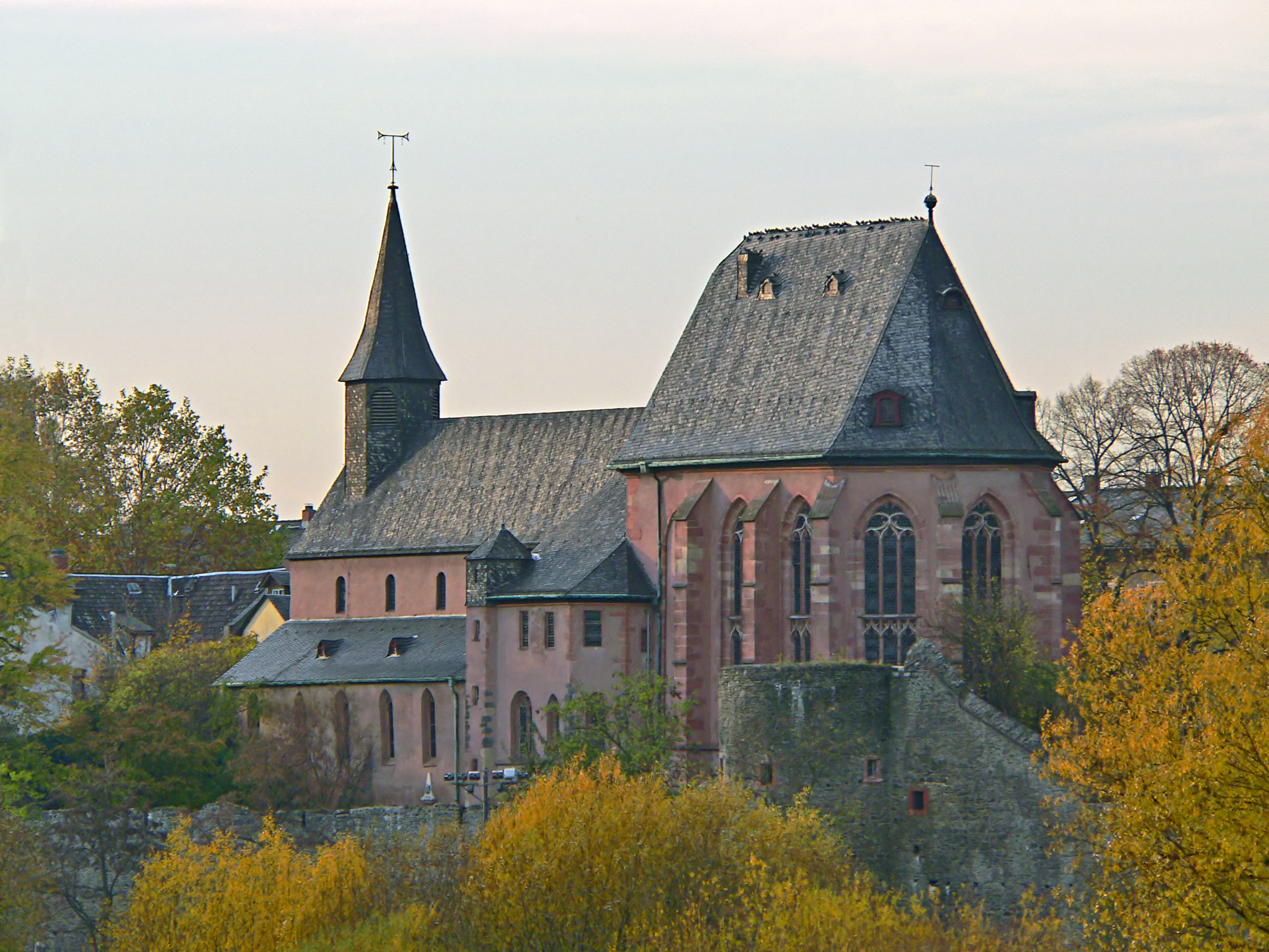 St. Justin's in Frankfurt-Höchst from south-east.